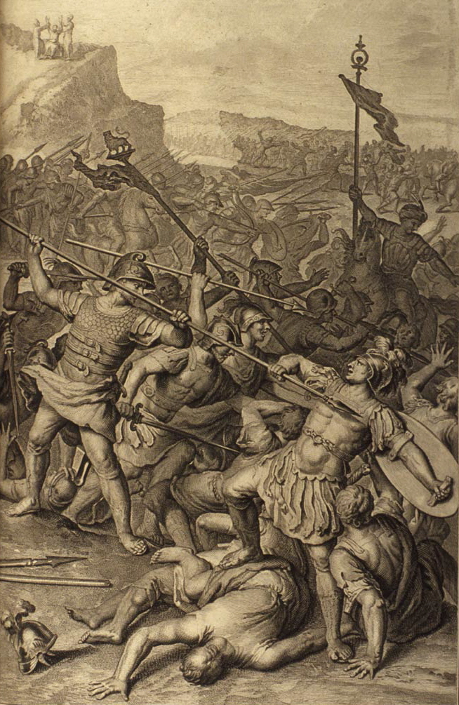 The Battle Between the Israelites and Amalekites; as in Exodus 17:8-13: "Then came Amalek, and fought with Israel in Rephidim. And Moses said unto Joshua, Choose us out men, and go out, fight with Amalek: to morrow I will stand on the top of the hill with the rod of God in mine hand. So Joshua did as Moses had said to him, and fought with Amalek: and Moses, Aaron, and Hur went up to the top of the hill. And it came to pass, when Moses held up his hand, that Israel prevailed: and when he let down his hand, Amalek prevailed. But Moses' hands were heavy; and they took a stone, and put it under him, and he sat thereon; and Aaron and Hur stayed up his hands, the one on the one side, and the other on the other side; and his hands were steady until the going down of the sun. And Joshua discomfited Amalek and his people with the edge of the sword."; illustration from the 1728 Figures de la Bible; illustrated by Gerard Hoet (1648–1733) and others, and published by P. de Hondt in The Hague; image courtesy Bizzell Bible Collection, University of Oklahoma Libraries